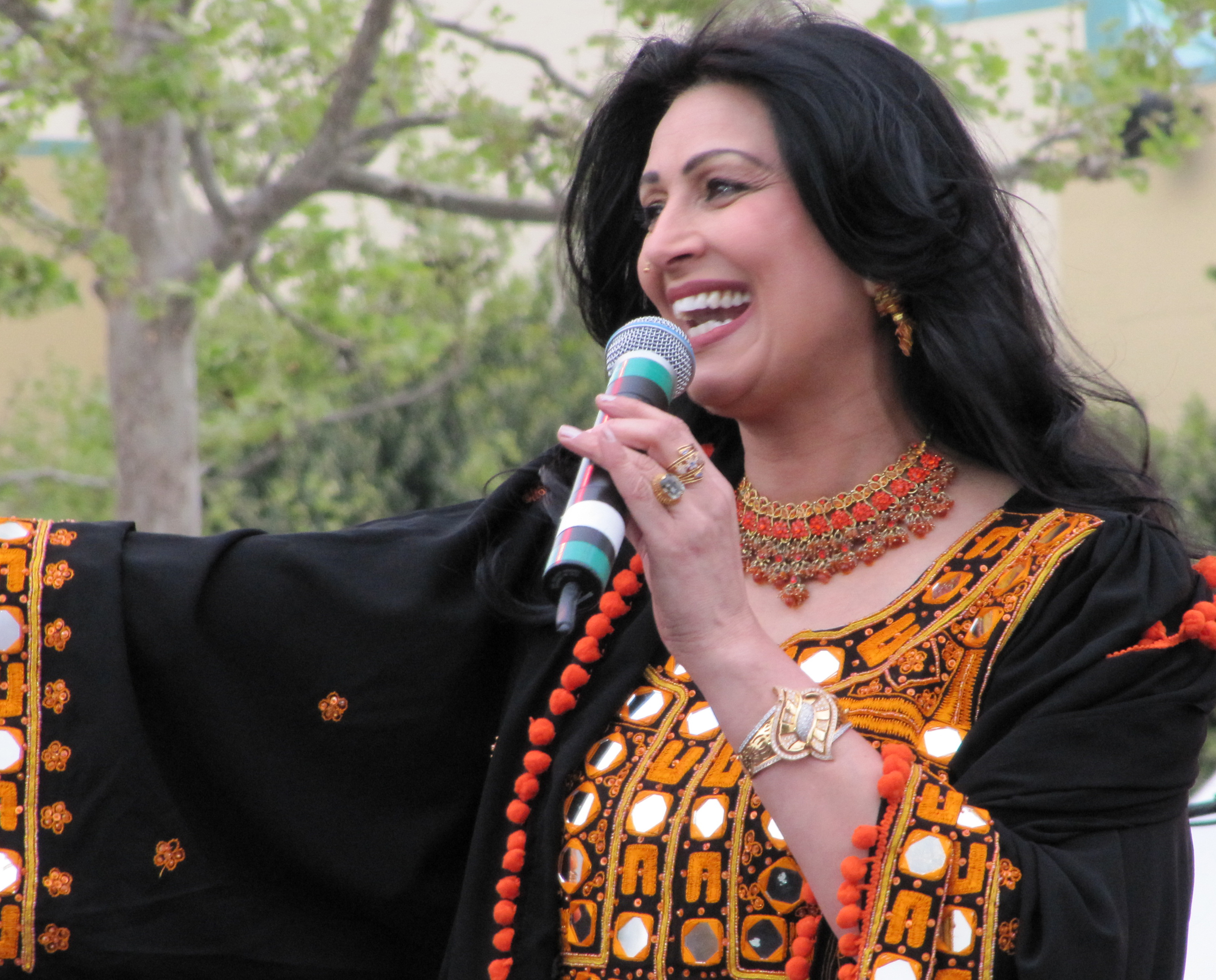 Naghma at Nowroz Mela (Fairplex)